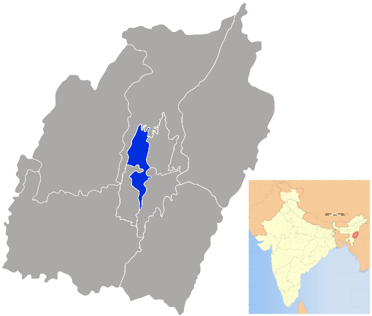 Imphal West district in Manipur